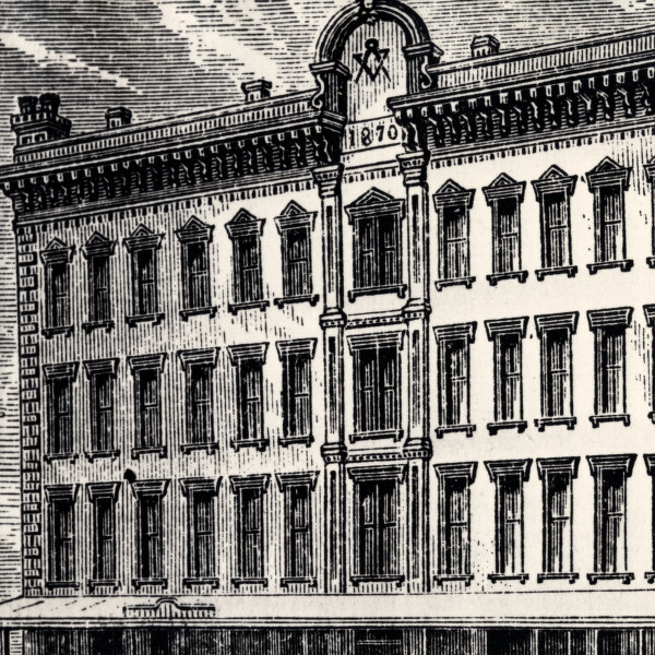 Photograph of a printed engraving of the four story Masonic Temple building in Houston- located at the corner of Main Street and Capital Avenue.